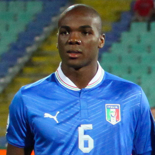 Angelo Ogbonna before the football game with Bulgaria, "Vasil Levski" stadium, Sofia, Bulgaria, September 7, 2012